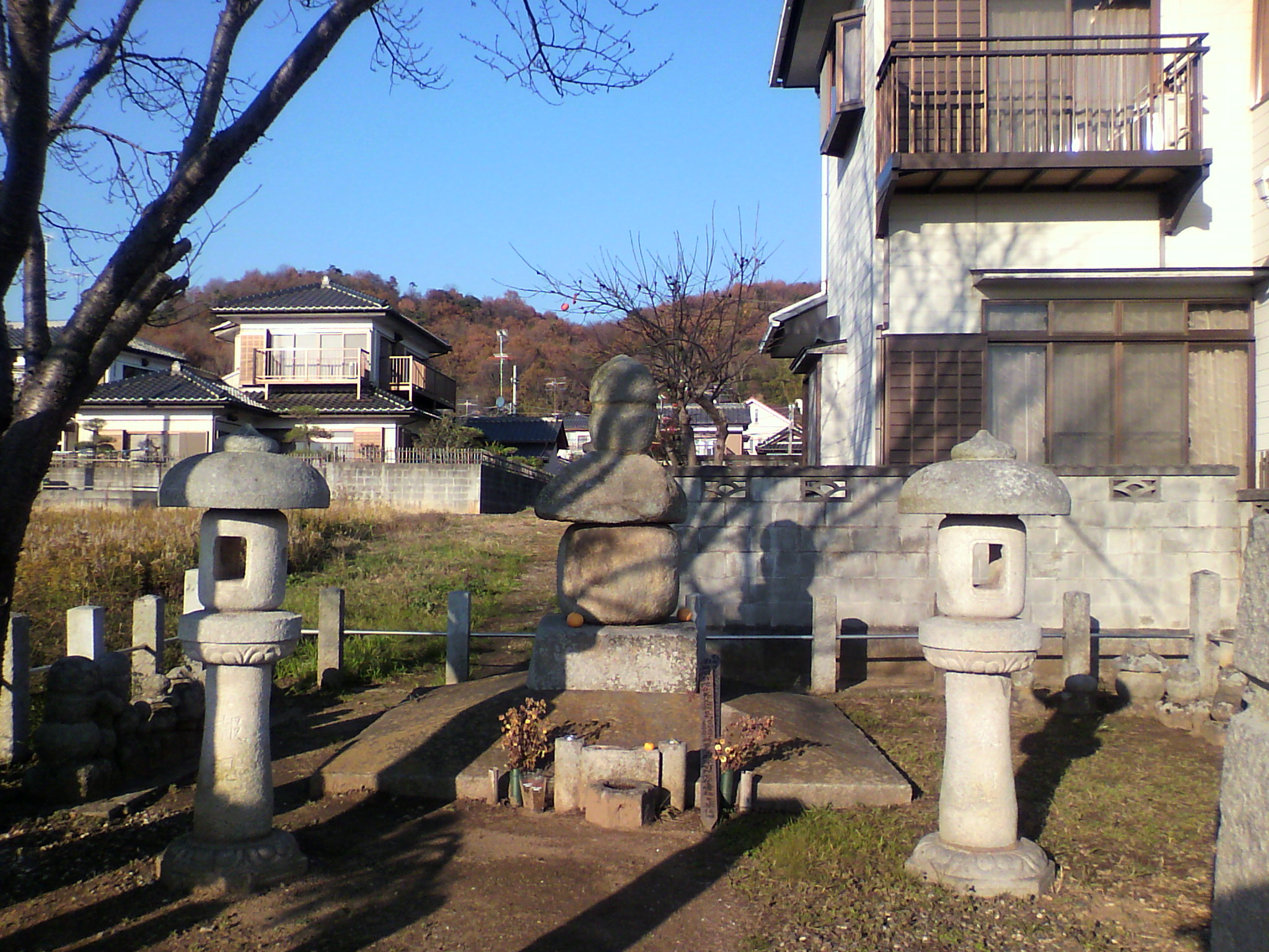 This is called "the grave for Takitaro-sama" by Hojo (北条) people. It is in Tsukuba, Ibaraki, Japan.